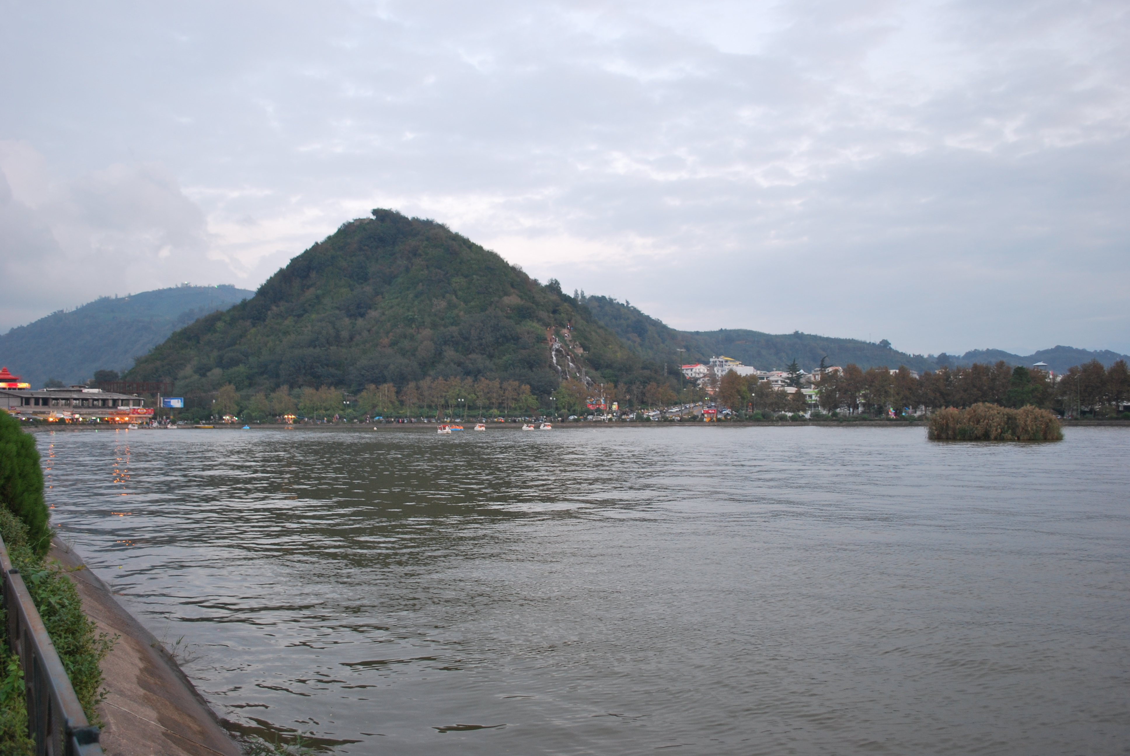 Sheitan kooh and watering place-Lahijan